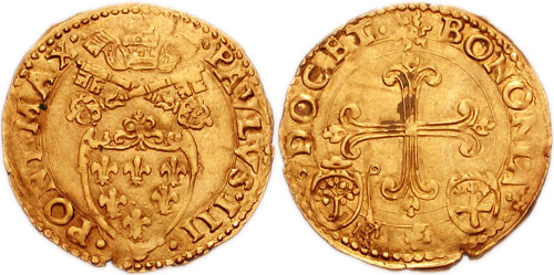 Italy, Papal States. Paulus III. 1534-1549. AV Scudo (26mm, 3.36 g). Bologna mint. Coats of arms of the House of Farnese surmounted by papal tiara and crossed keys. Around PAVLUS•III PONT•MAX• Cross fleurée; tree on shield and cross surmounted by three lis on shield on either side at base. Around BONONIA DOCET CNI X pg. 86, 12; cf. Muntoni I pg. 172, 95; Berman 926g.